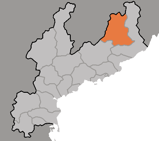 Map of Hochon, Hamgyong-namdo, DPRK, 2006